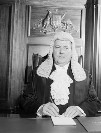 Australian politician Alister McMullin, in the regalia of the President of the Senate